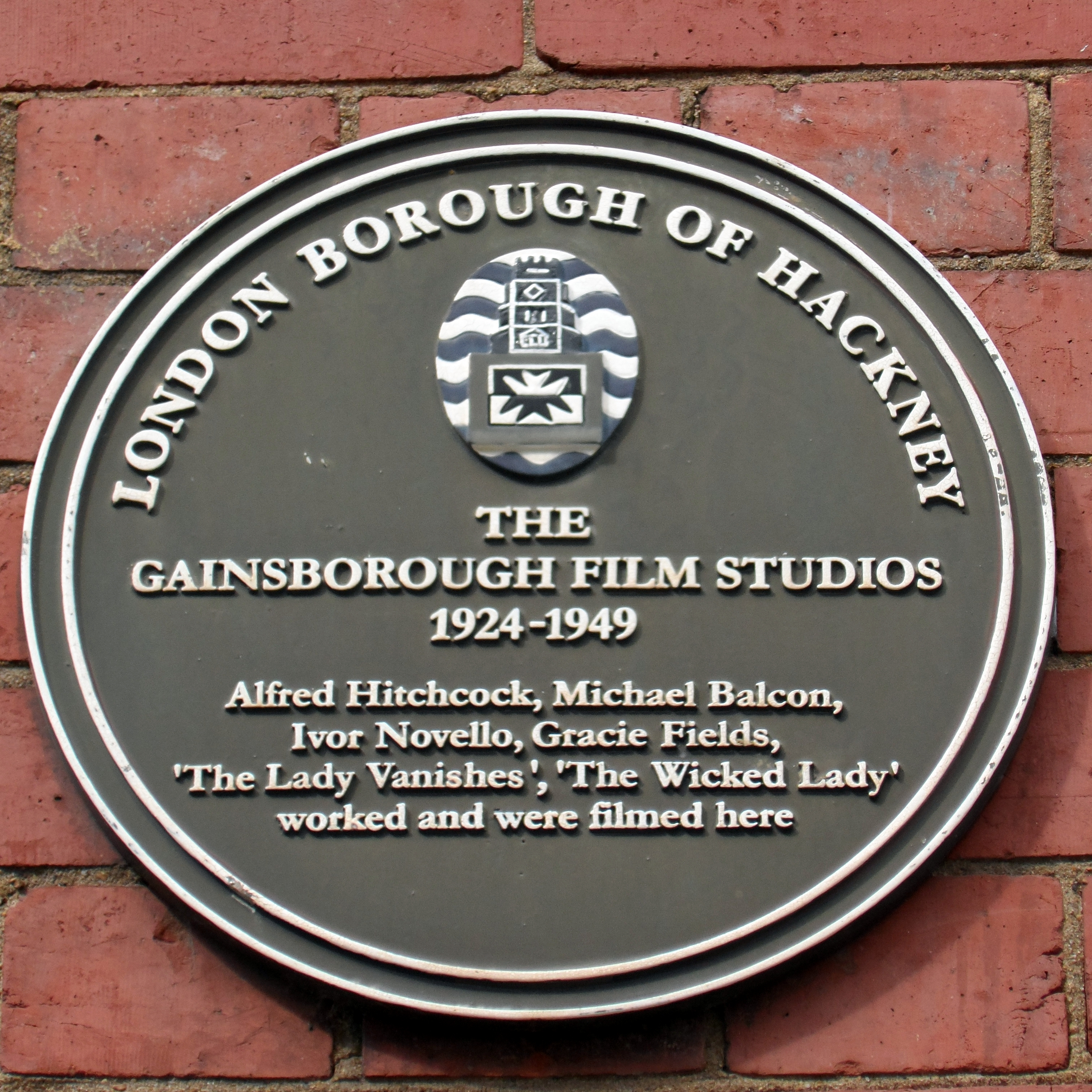 1 Poole St, London, N1 5EB; Google Street View